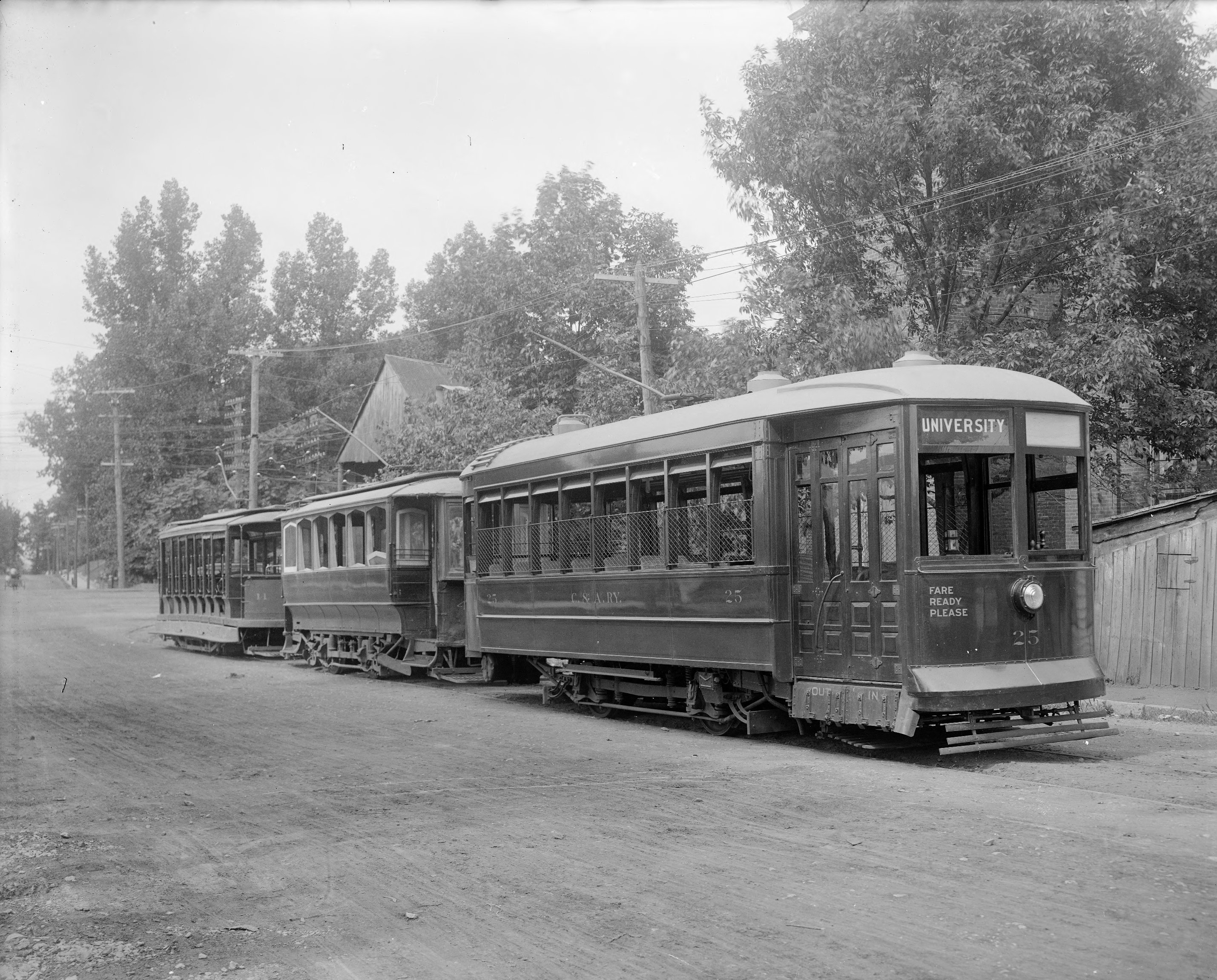 Three C&A streetcars (25, 4?, 11) in 1914. This photo shows three different types of streetcars used by the C&A. Cropped slightly from original.